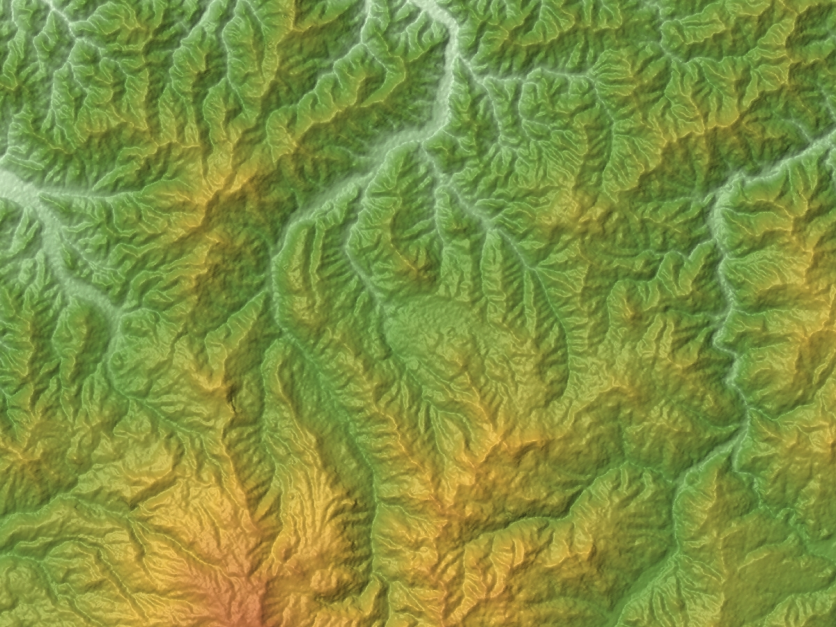 Teragi Caldera in Hyōgo Prefecture, Honshu, Japan.